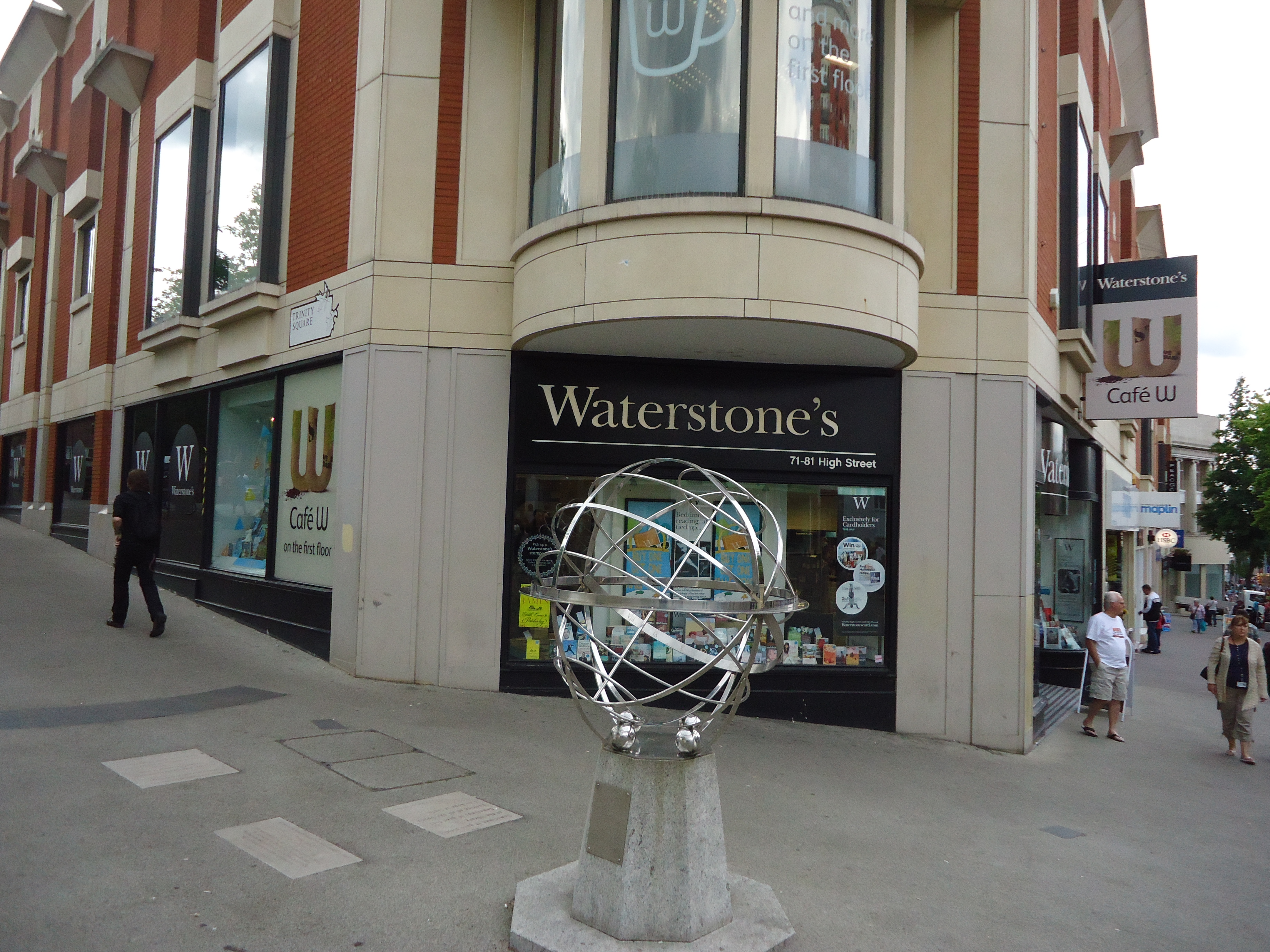 The Millennium Dial Armillary in Sutton town centre. This was donated by the local Rotary Club and is currently situated outside the town's large (2 storey) Waterstones bookshop.